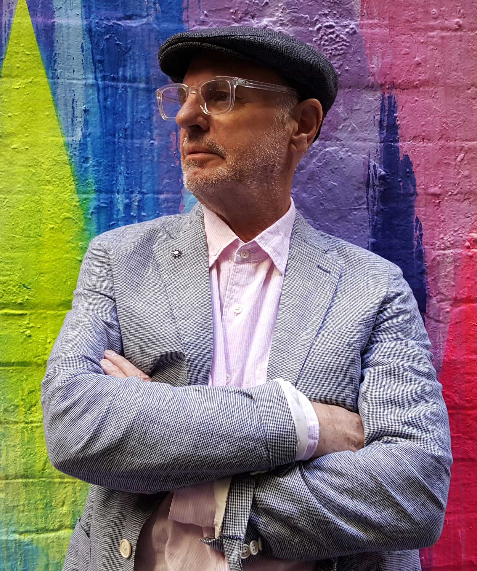 Philip Nitschke campaigner for the human right to a dignified death